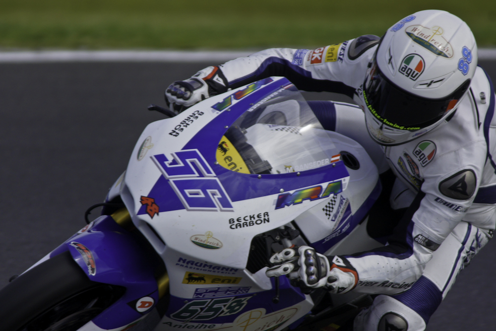 Michael Ranseder, Vector Kiefer Racing - Suter MMX Moto2 in 2010 Australian motorcycle Grand Prix